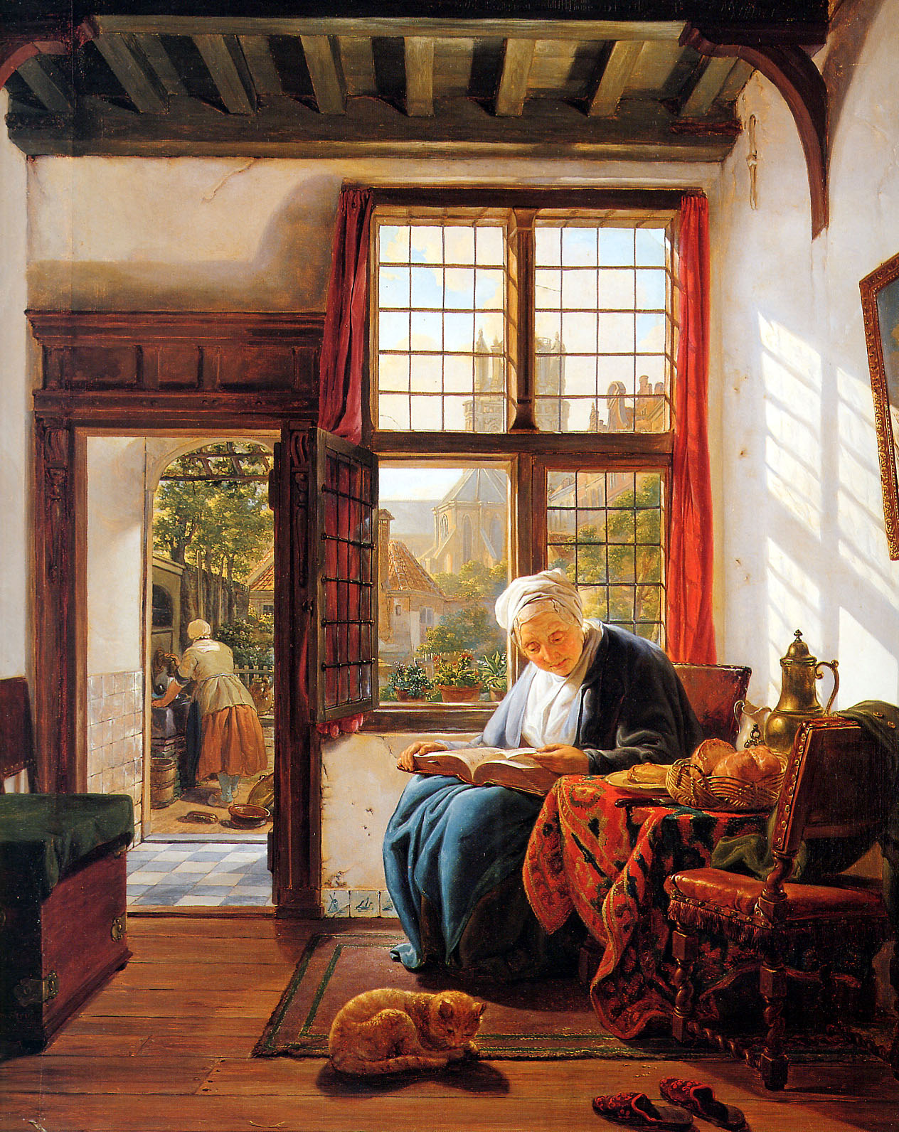 Abraham van Strij (1753 - 1826) - Woman reading at the window. Oil paint on wood.